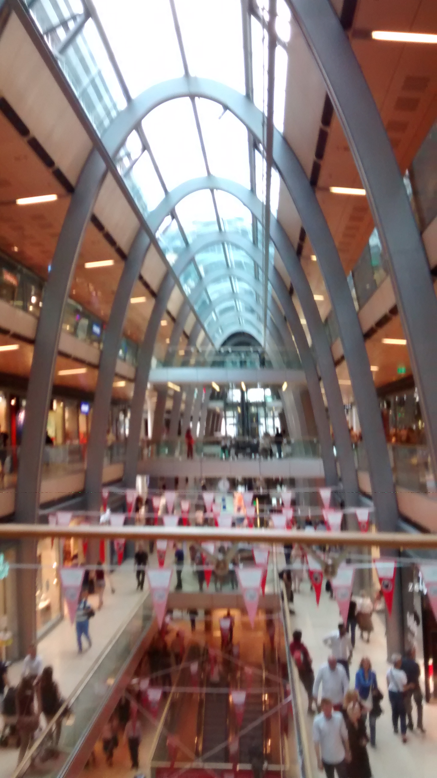 Mall shopping centre